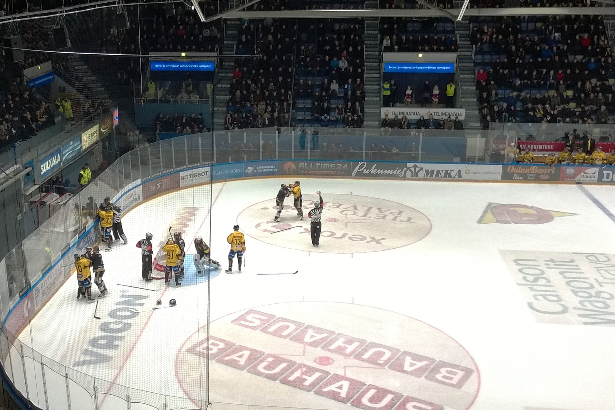 The game Kärpät vs KalPa in the Oulu Ice Hall on December 12, 2015.